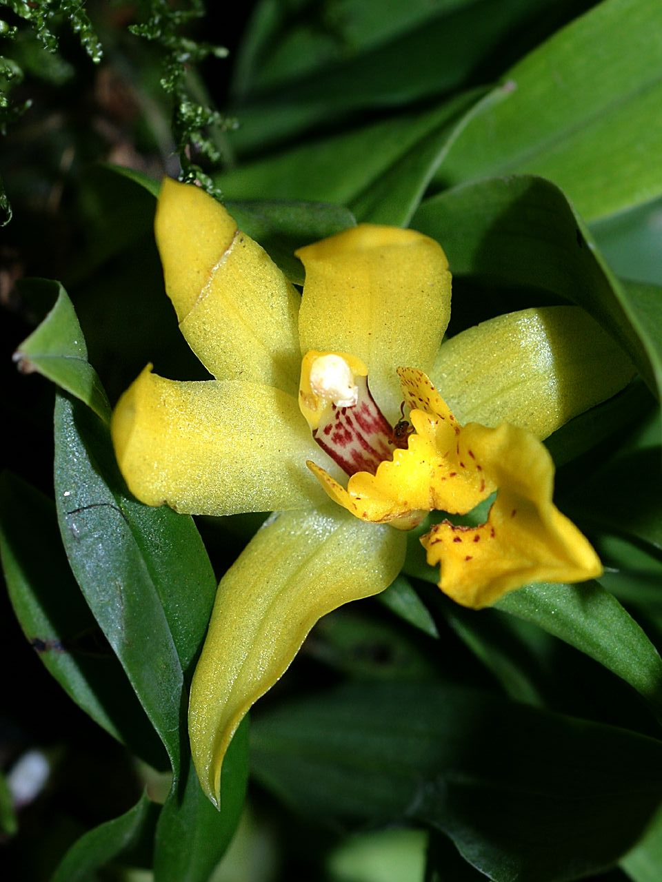 Promenaea xanthina